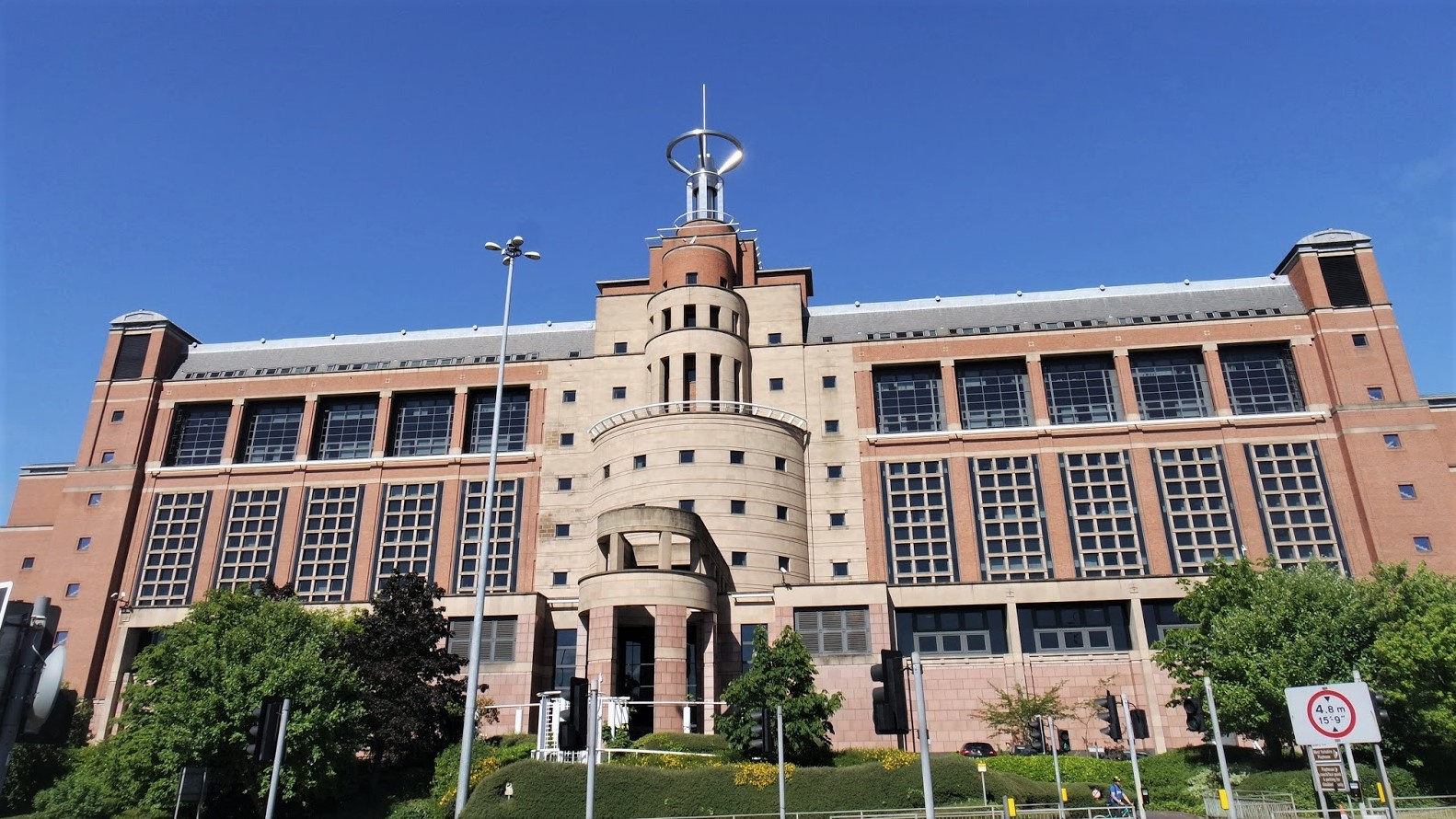 NHS England.